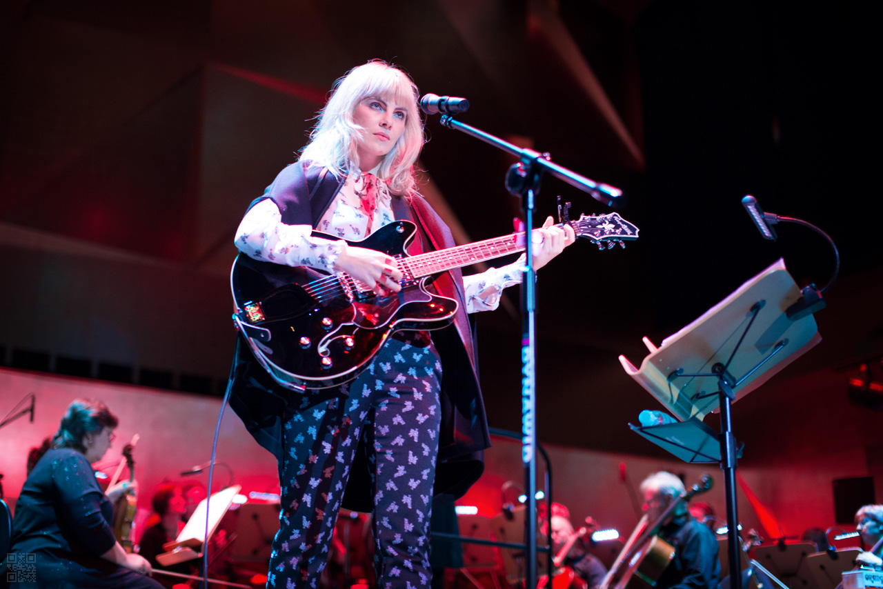 Julia Marcell concert with the participation of the Szczecin Philharmonic Orchestra under the baton of Adam Bars